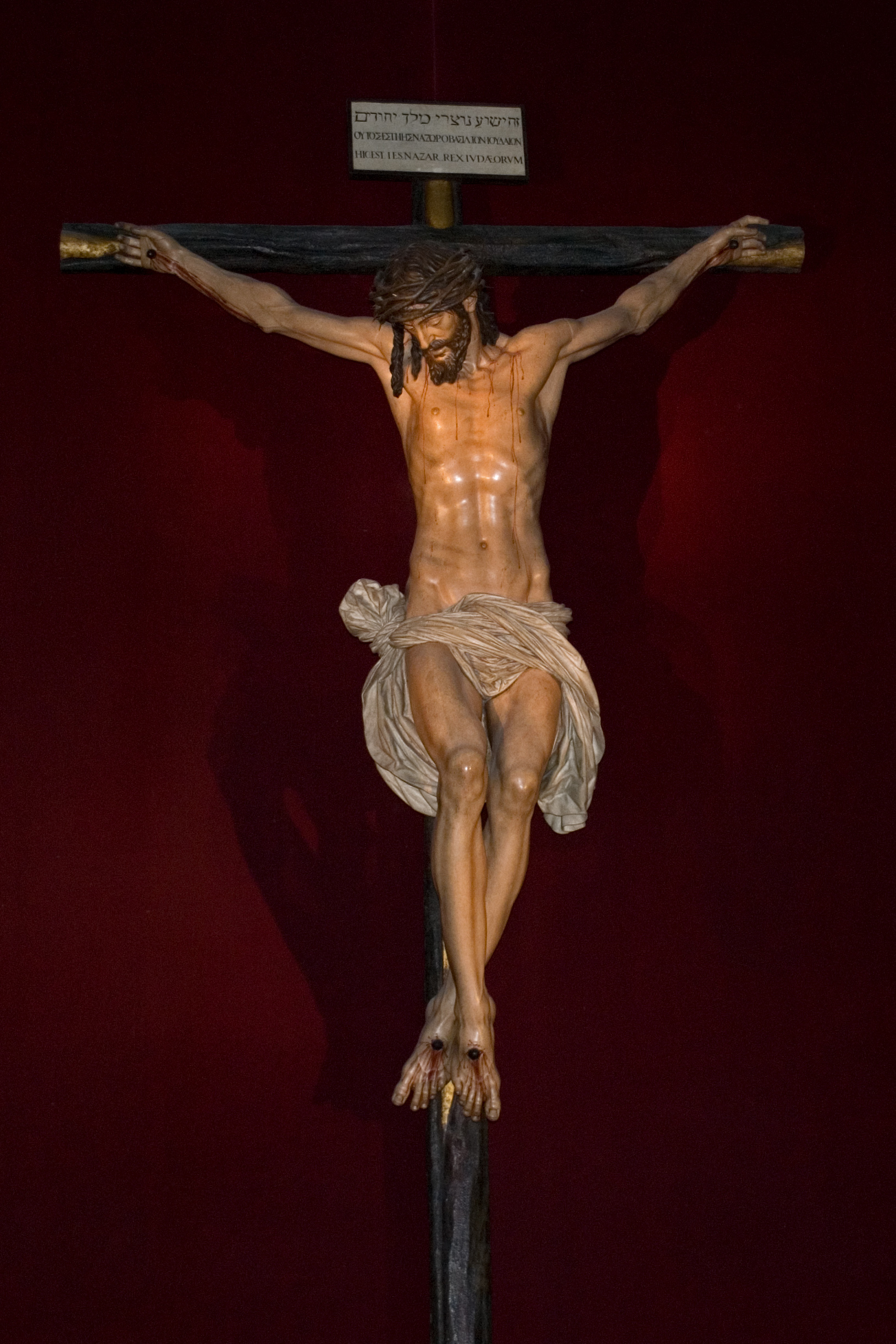 Crist of the Mercy (1603) by Juan Martínez Montañez. Sacristy Cathedral of Seville, Spain